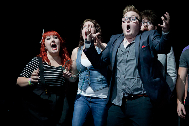 Band The Lottery Winners winning the 2010 Live and Unsigned Contest at the Indig02